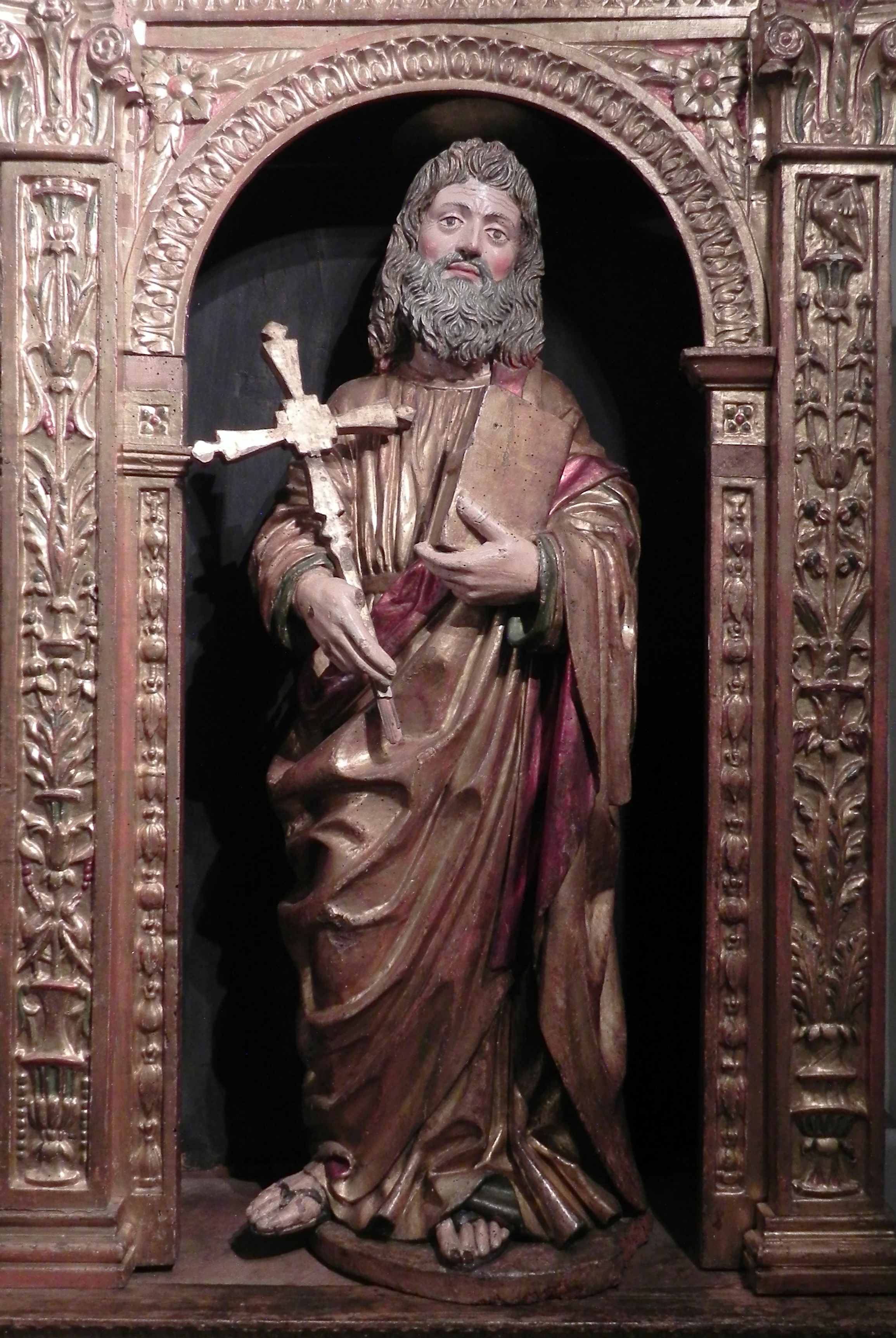 Peter Bussolo and workshop "Wooden Altarpiece" around 1495-1500 - Polychrome wood The statue of St. Andrew Museo Diocesano Adriano Bernareggi, Bergamo